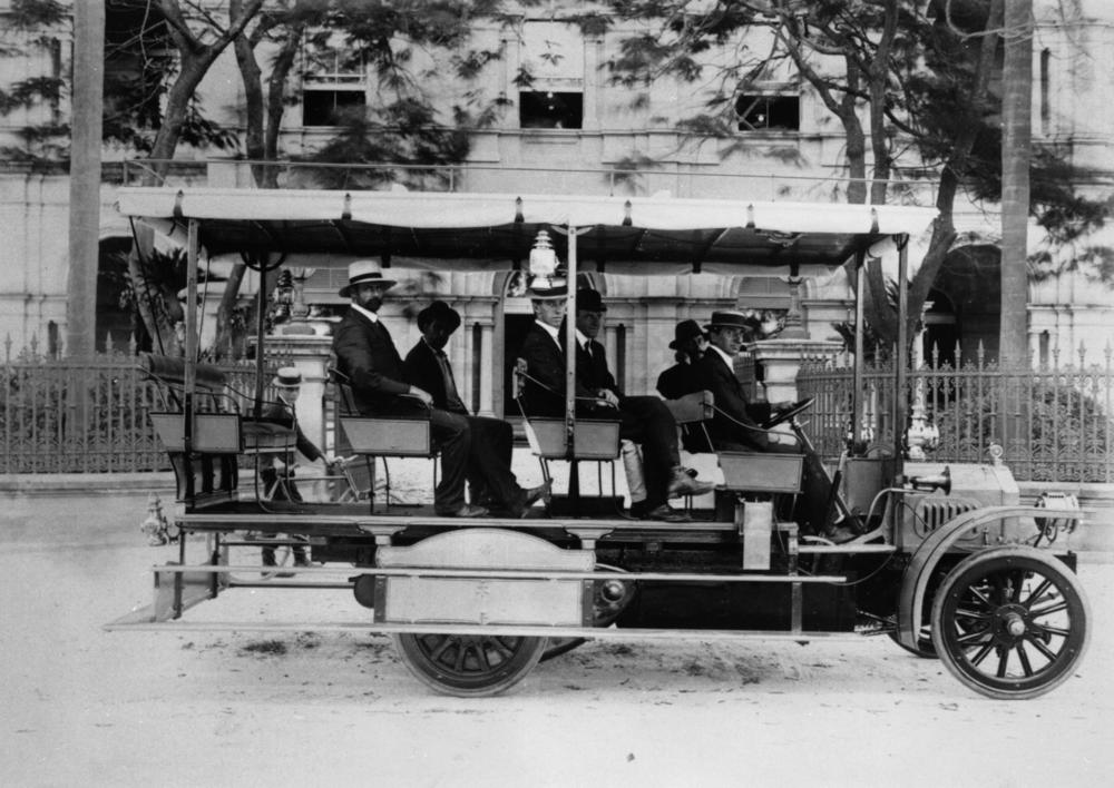 Lacre bus parked in Brisbane, Queensland, ca. 1912. Possibly British-built, 1912 model Lacre bus.